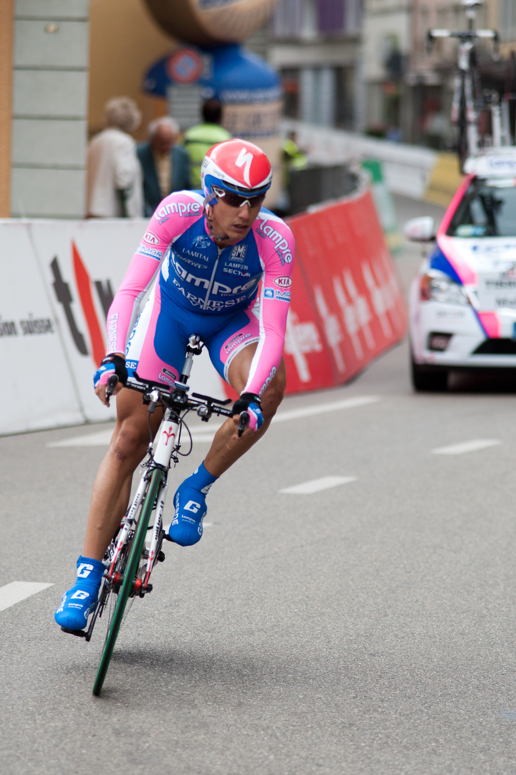 Adriano Malori during the 3rs stage of the Tour de Romandie 2010.